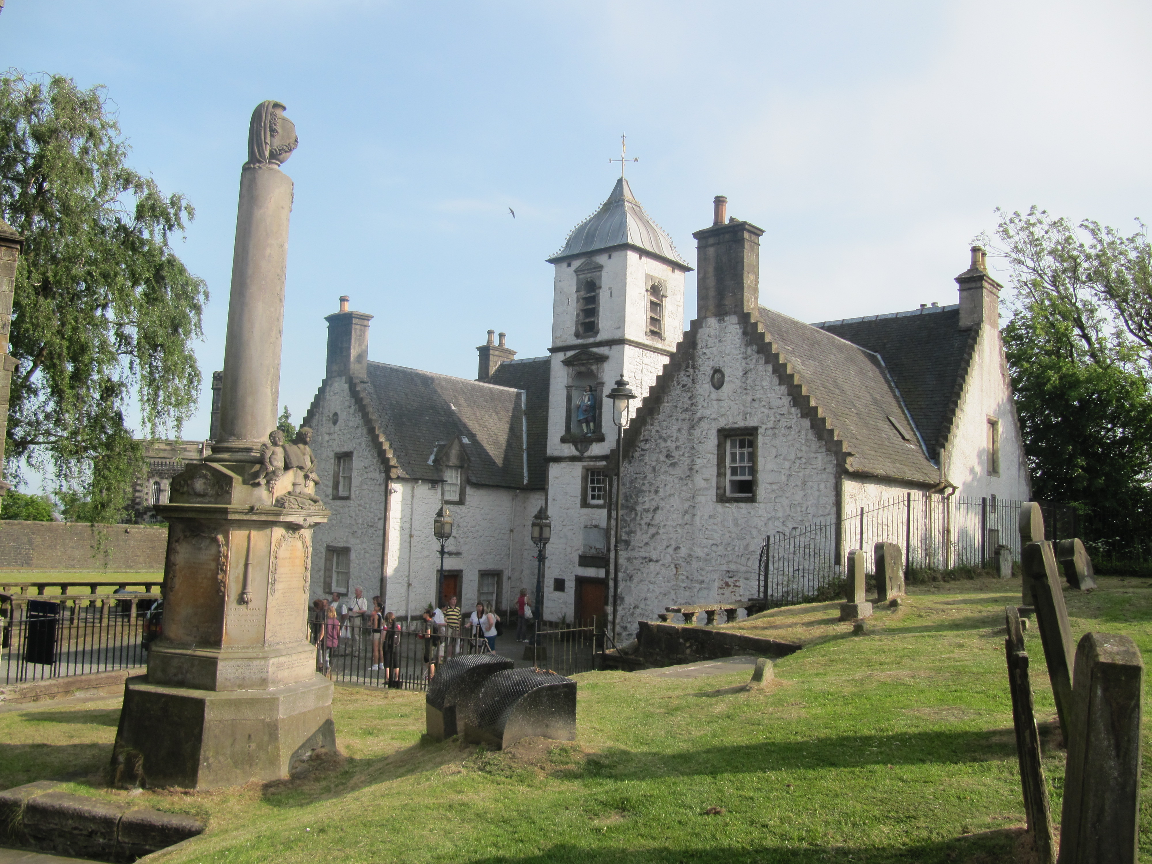 Stirling,Cowane's Hospital